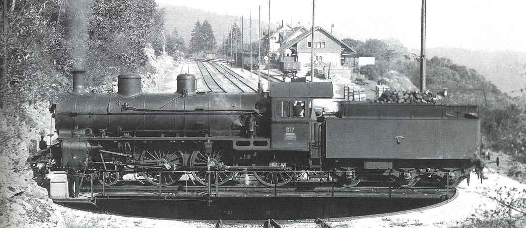 SBB superheated four-cylinder compound machine A 3/5 No. 617 on the turntable in Chambrelien. Chambrelien is located on the Neuchâtel-La Chaux-de-Fonds route, which makes a zig zag at Chambrelien station to overcome the difference in altitude between Neuchâtel railway station (479 m asl) and Convers (1048 m). In the past, the locomotives had to run-round their trains and turn on the turntable. Today, this cumbersome procedure is eliminated: SBB only use commuter trains on this route.